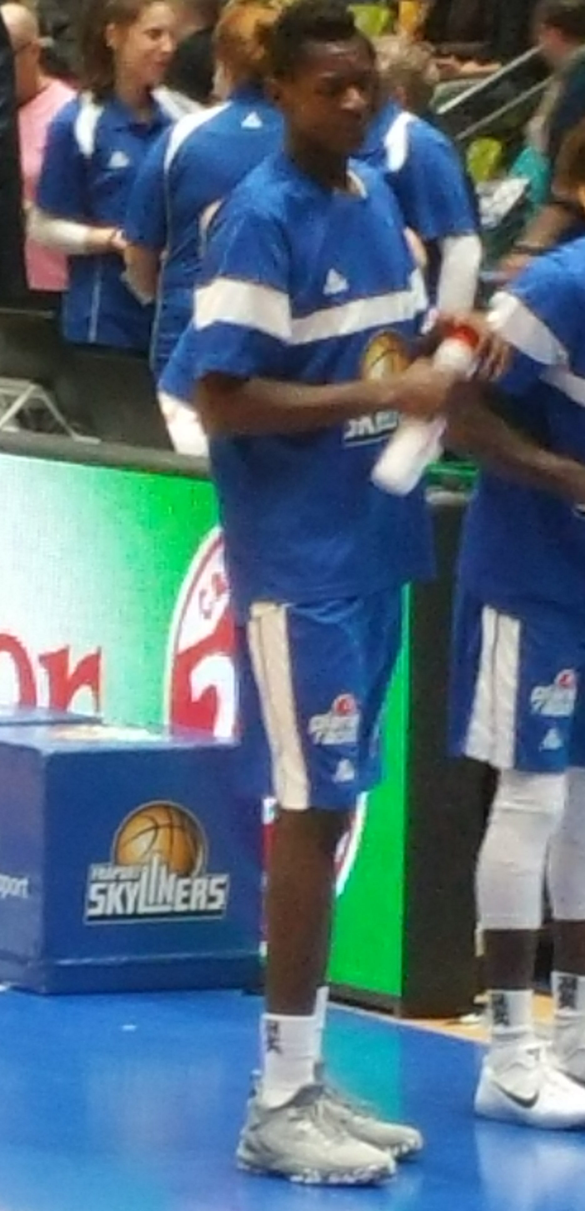 Isaac Bonga, Germany basketball player